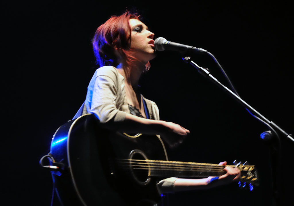 Nathalie at concert in Padua, Italy, on April 15, 2011